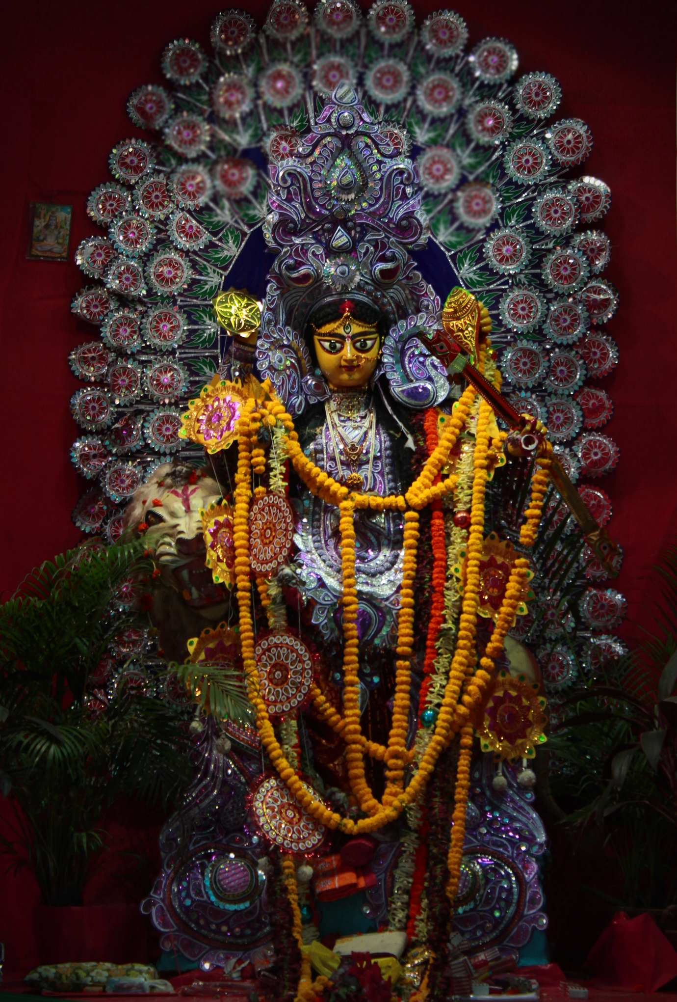 Jagadhatri puja at Chowdhury para in Andul village, Howrah.